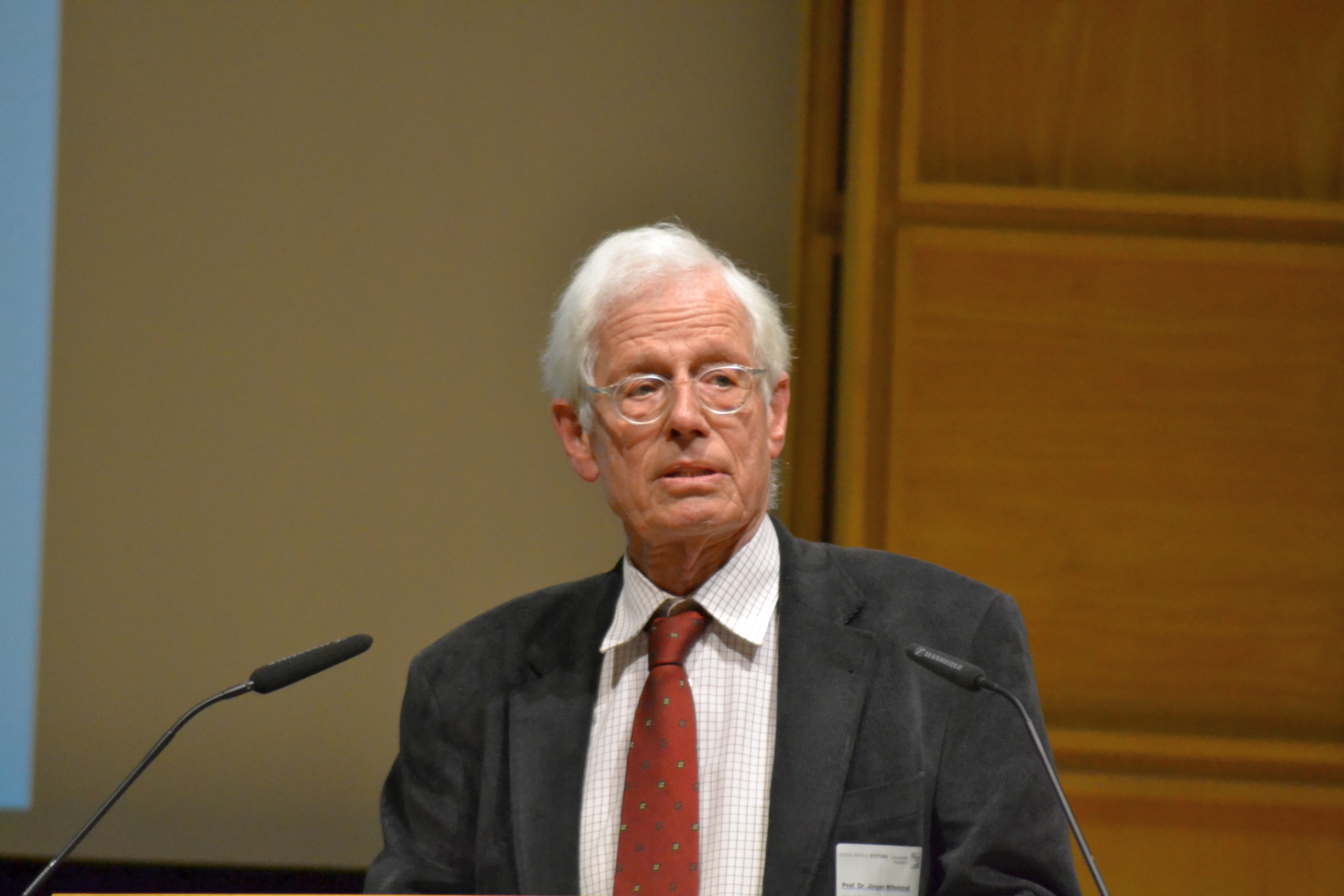 Conference "Die Zukunft der Wissensspeicher: Forschen, Sammeln und Vermitteln im 21. Jahrhundert" ("Future of the knowledge stores") of the University of Konstanz with the Gerda Henkel Stiftung at the Nordrhein-Westfälischen Akademie der Wissenschaften und Künste in Düsseldorf on 5th and 6th of March 2015.